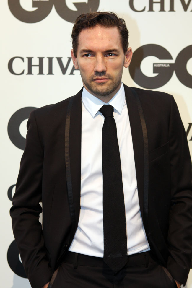 GQ Australia Man Of The Year Joel Edgerton